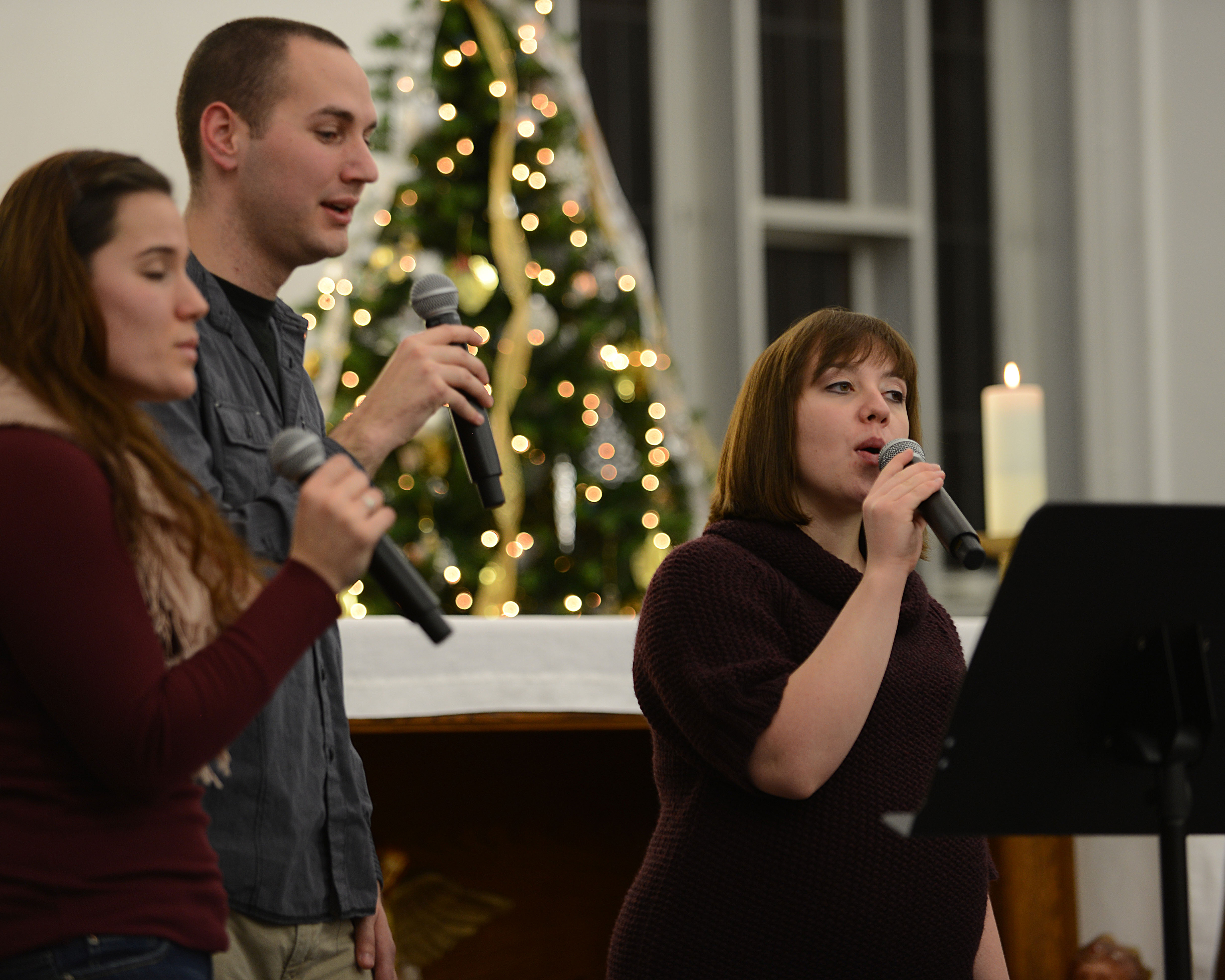 Members of the RAF Mildenhall Praise Team sing contemporary Christmas songs at the Christmas Music Extravaganza Dec. 4, 2013, in the chapel on RAF Mildenhall, England. The extravaganza hosted performers from RAF Mildenhall, RAF Lakenheath and the local community. The event offered a chance for service members and their families to socialize and get in reward. (U.S. Air Force photo by Airman 1st Class Preston Webb/Released) Unit: 100th Air Refueling Wing Public Affairs